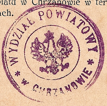 The seal of Chrzanów County, before 1929